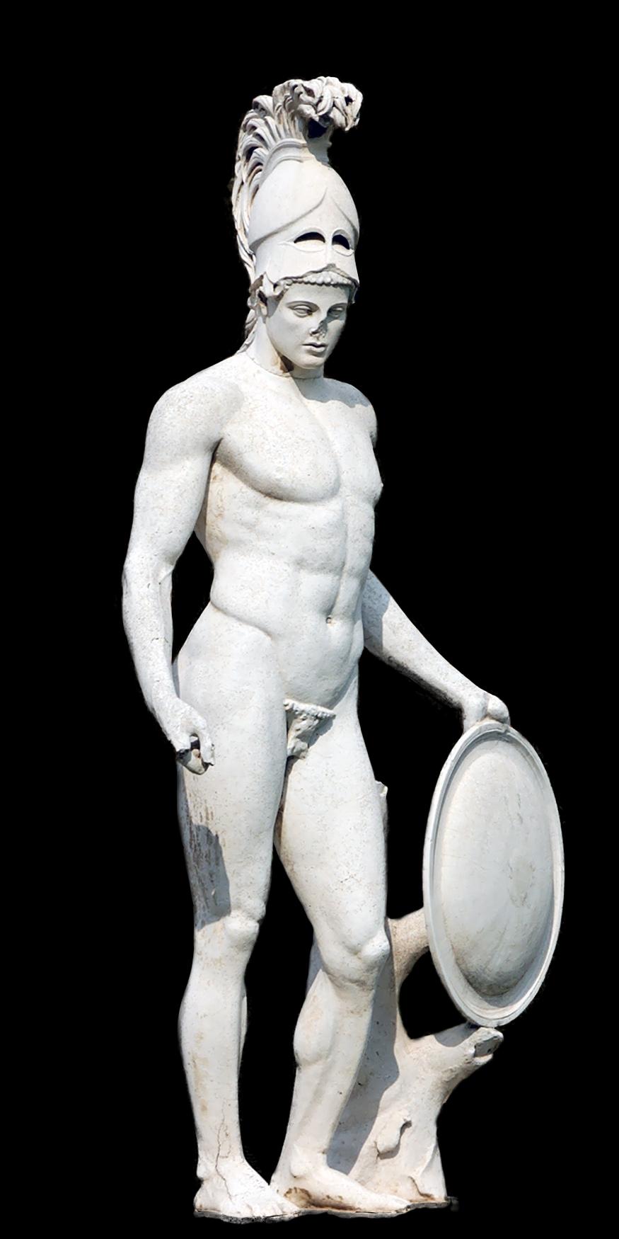 Helmeted young warrior, so-called Ares. Roman copy from a Greek original—this is a plaster replica, the original is now stored in the Museum of the Villa. Canope at the Villa Adriana